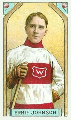 1910–11 Imperial Tobacco Co. hockey card #28 of Montreal Wanderers player Ernest Johnson